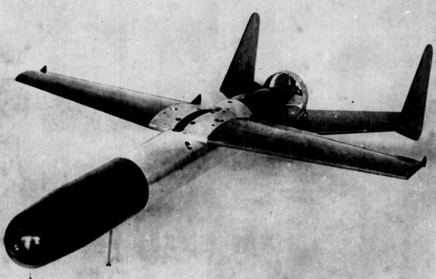 Scale model of the wing-attached glider-version KINGFISHER airframe used in wind tunnel tests.